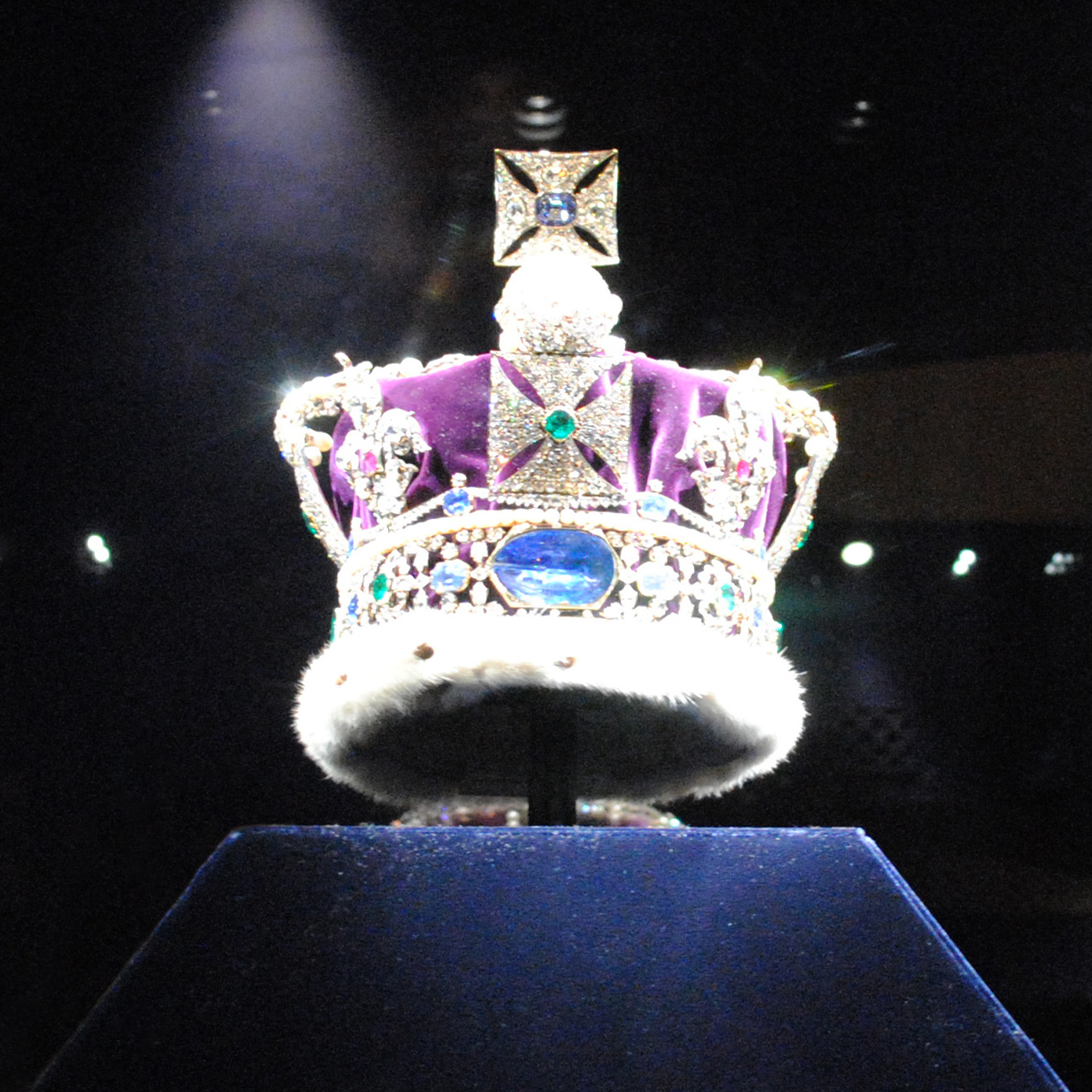 The back of the Imperial State Crown (made in 1937 with alterations in 1953) on display in the Jewel House at the Tower of London.